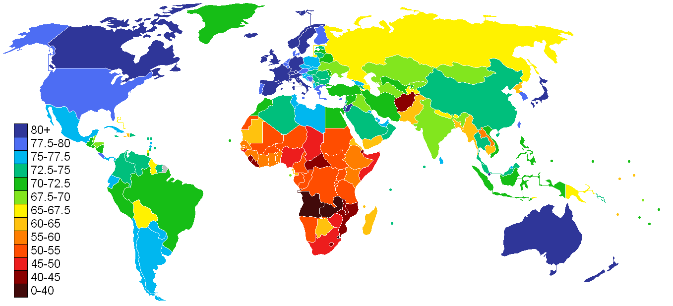 2011 life expectancy estimates by CIA World Factbook.